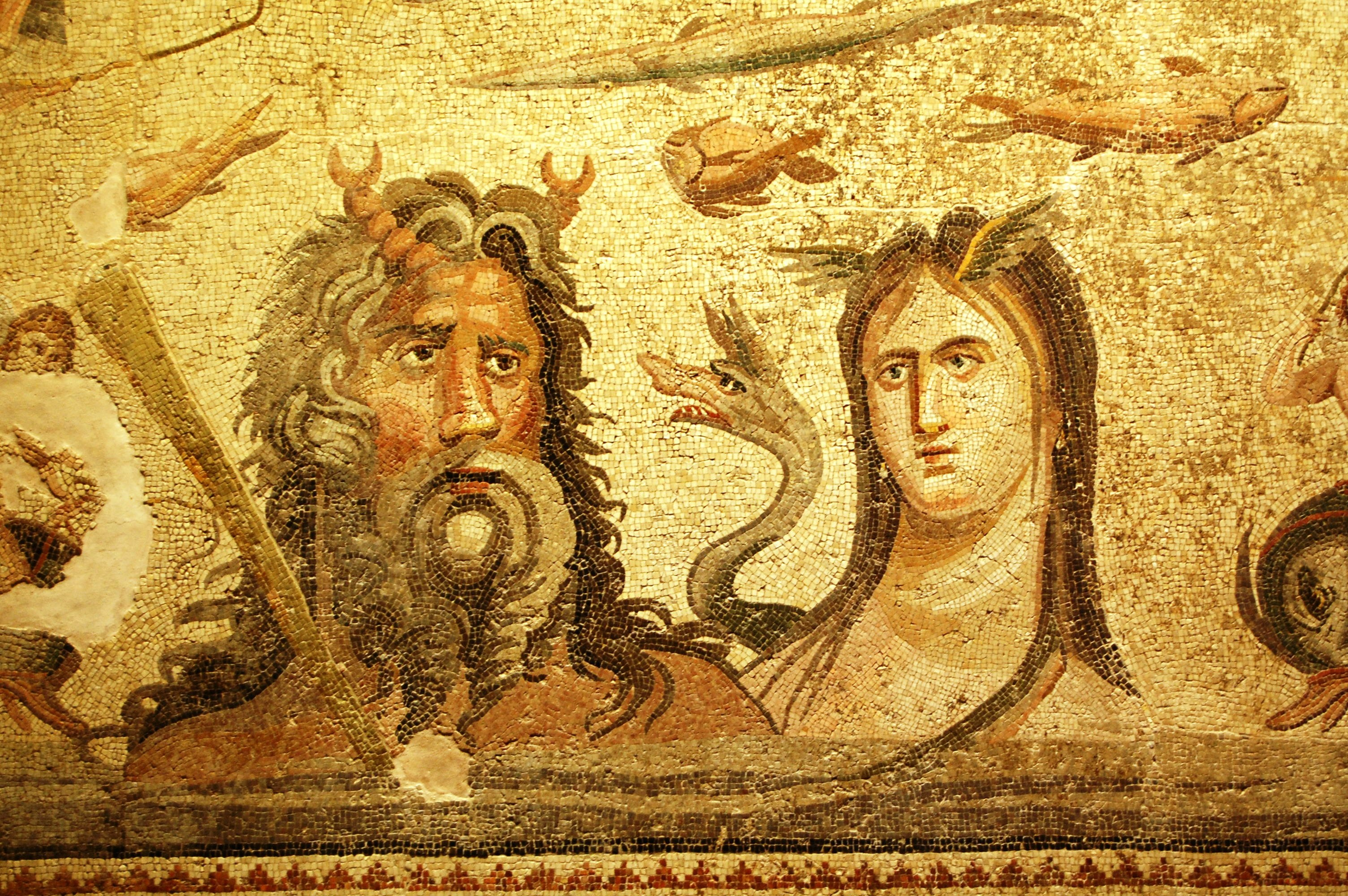 The Oceanus and Tethys Mosaic in the Zeugma Mosaic Museum, Gaziantep, Turkey